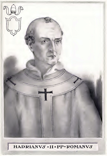 This illustration is from The Lives and Times of the Popes by Chevalier Artaud de Montor, New York: The Catholic Publication Society of America, 1911. It was originally published in 1842.